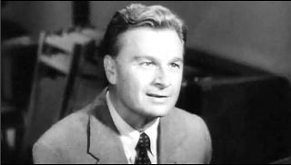 Screenshot of Eddie Albert from the trailer for the film I'll Cry Tomorrow (1955).